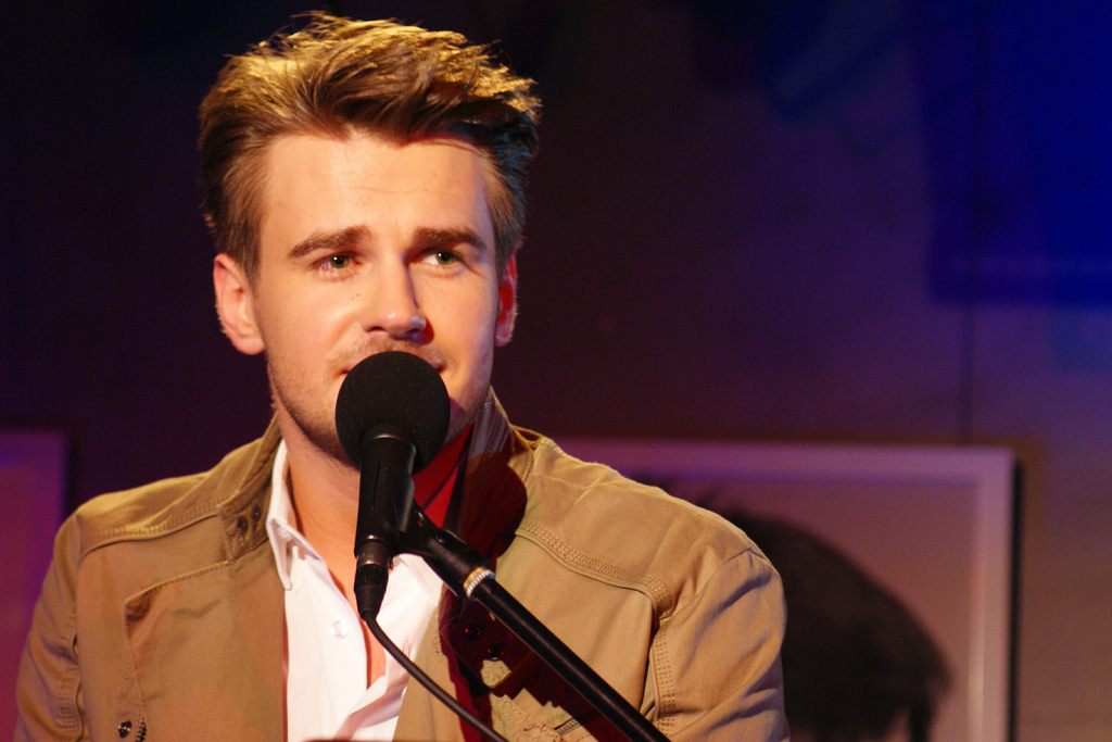 Marcin Mroziński in concert